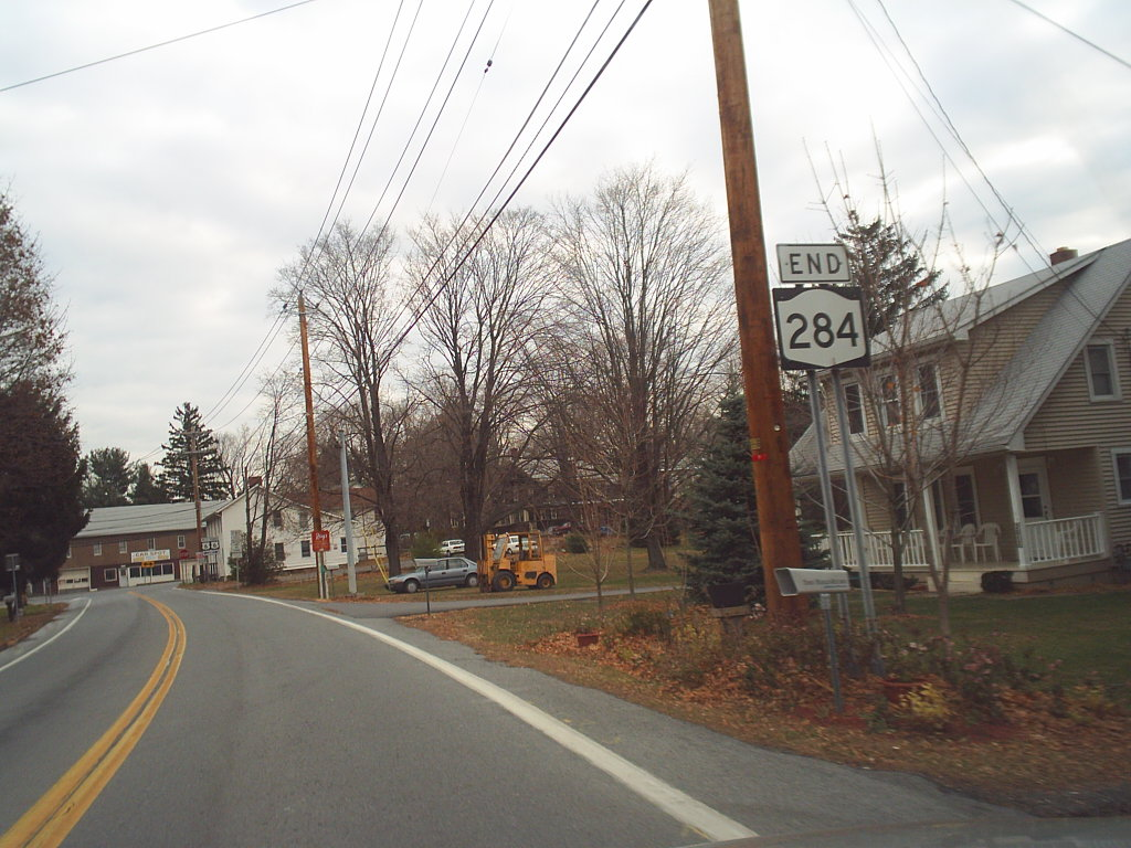 New York State Route 284 approaching its northern end, U.S. Route 6 in the hamlet of Slate Hill, New York.